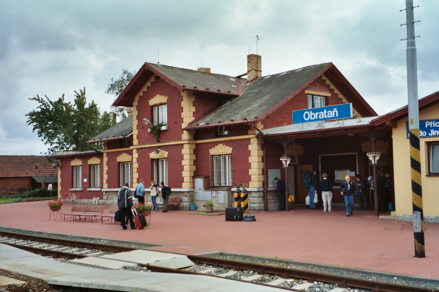 Railway station Obrataň in Czech Republic